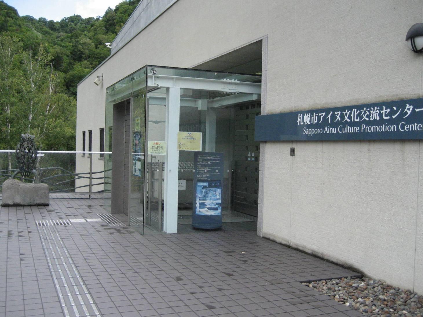 Sapporo Ainu Cultural Promotion Center in Sapporo, Hokkaido, Japan